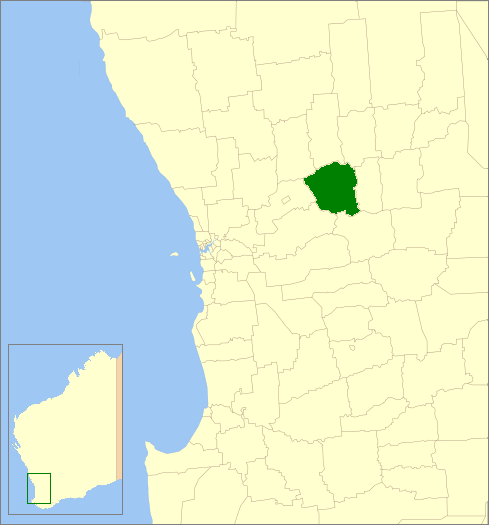 Description=Location of the Local Government Area in Western Australia